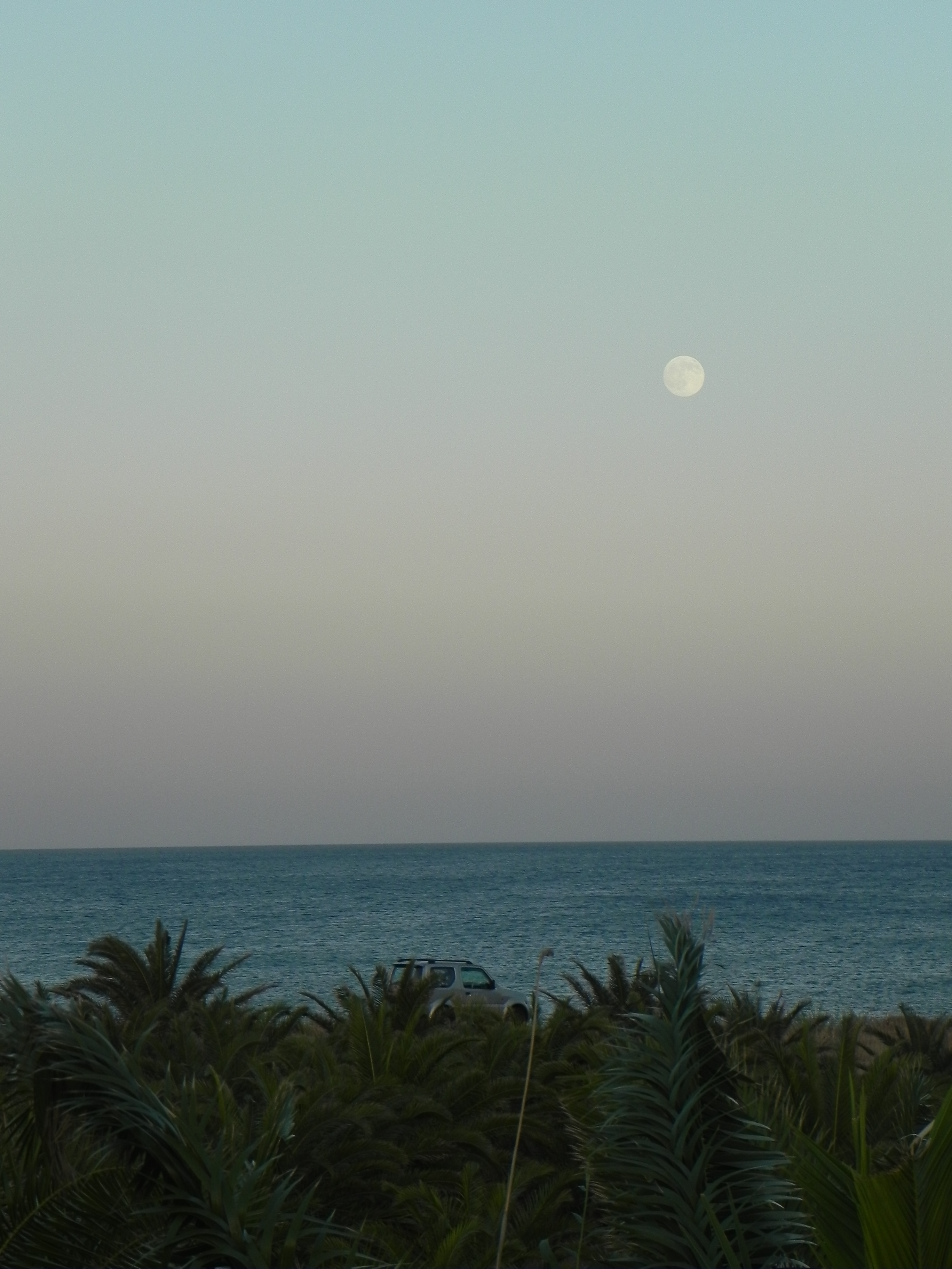 Tra le palme sulla spiaggia